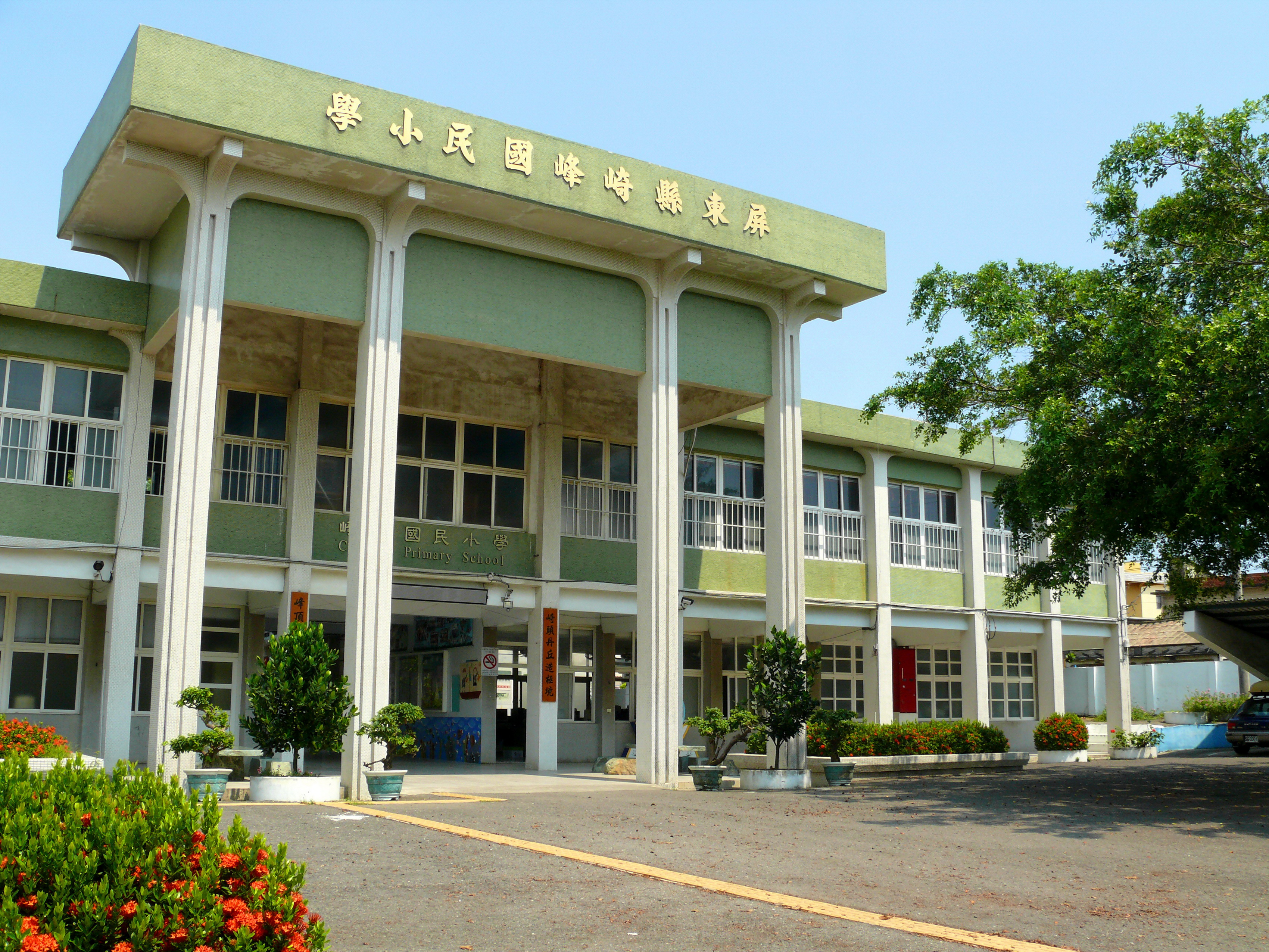 Chifen Elementary School Linbian Township Pingtung County, Taiwan.